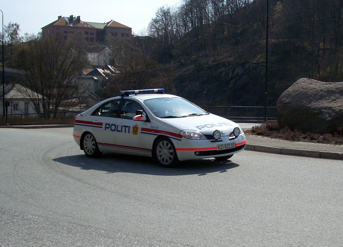 Norwegian police car from the Norwegian police college in Arendal Norway 2009